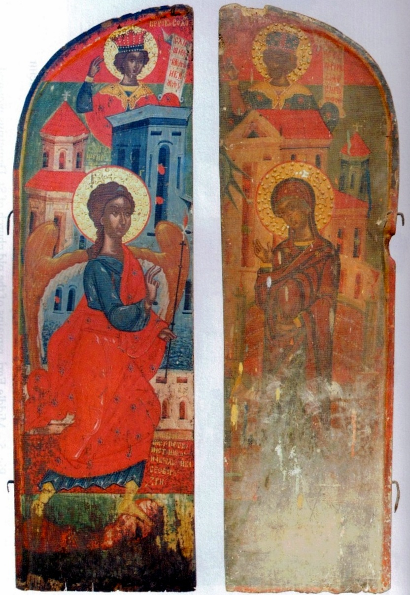 Royal Doors in Saint Petka Church in Gorno Orehovo 1642